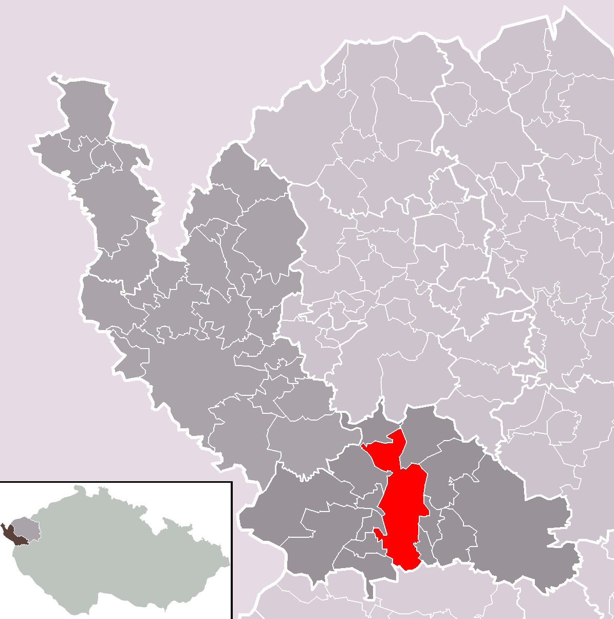 Location of Mariánské Lázně town within Cheb District and administrative area of Mariánské Lázně as a Municipality with Extended Competence.